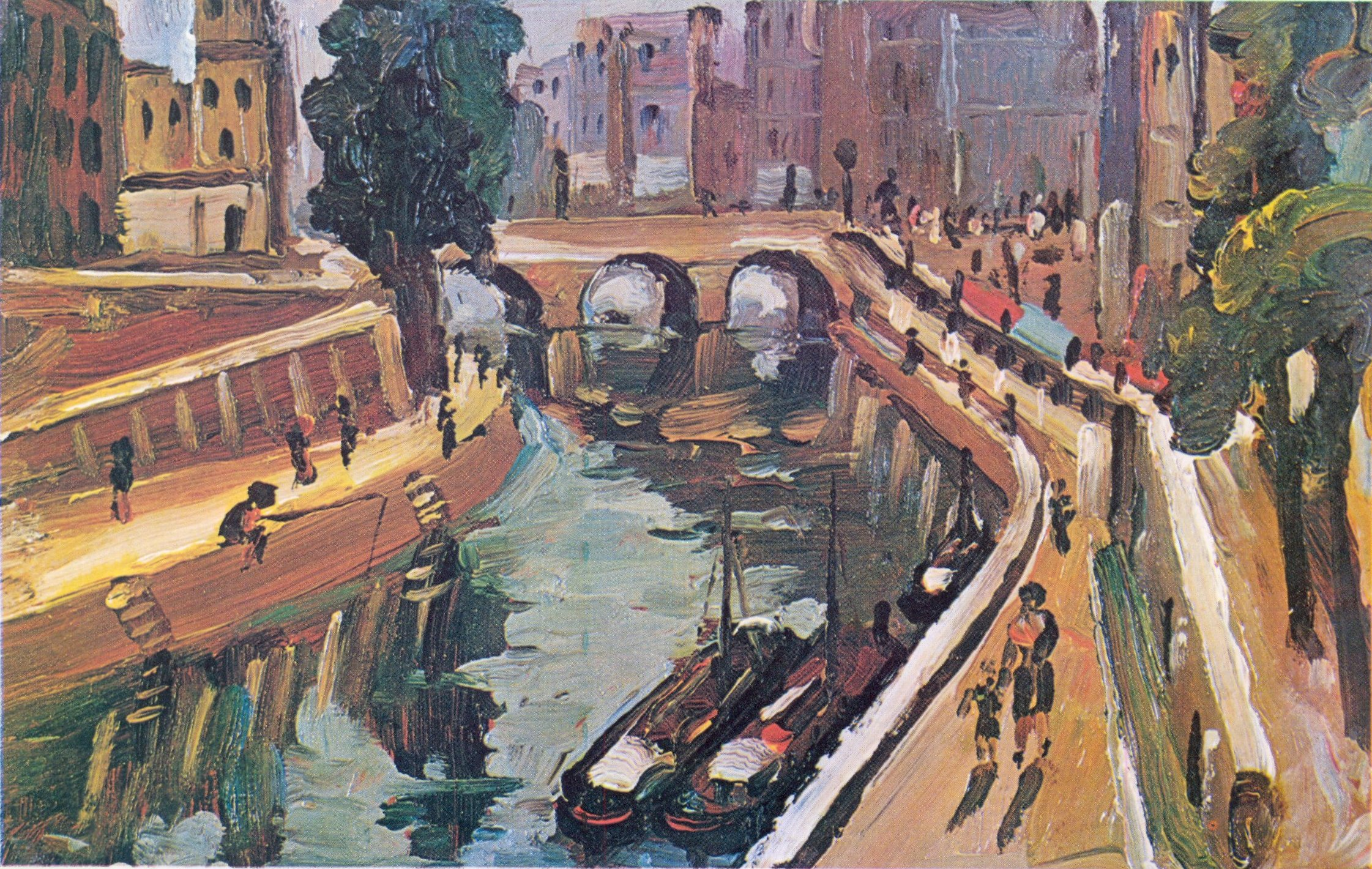 Picture representing Paris, Seine 1951 artwork of Costas Koutsouris. Oil on wooden hardboard, dimensions 12cmx18cm unframed.